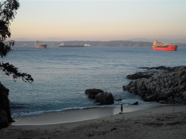 Quintero. Playa Los Enamorados.